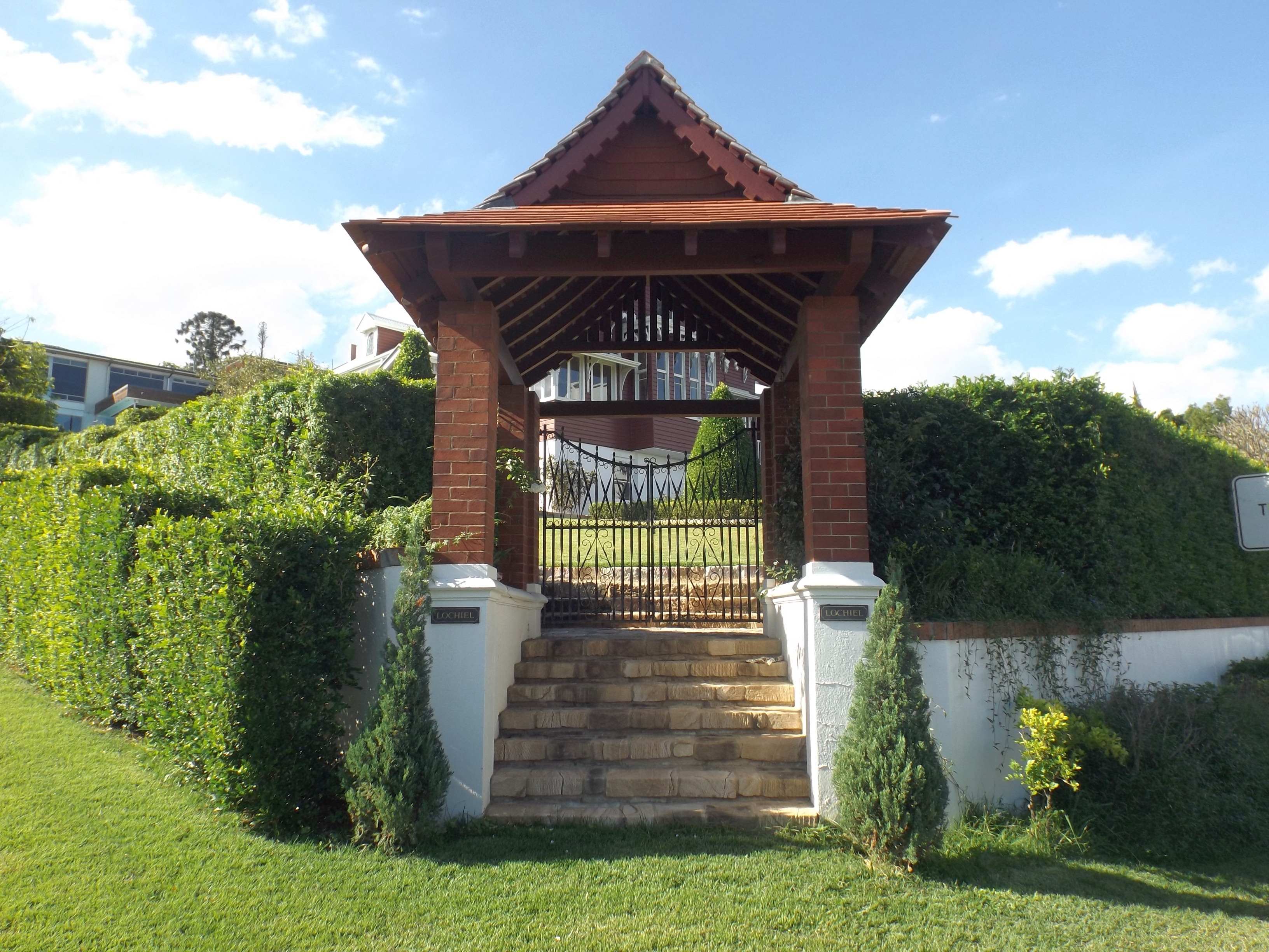 Photo of the entrance to the Lochiel residence at Hamilton, Brisbane, Queensland, Australia.